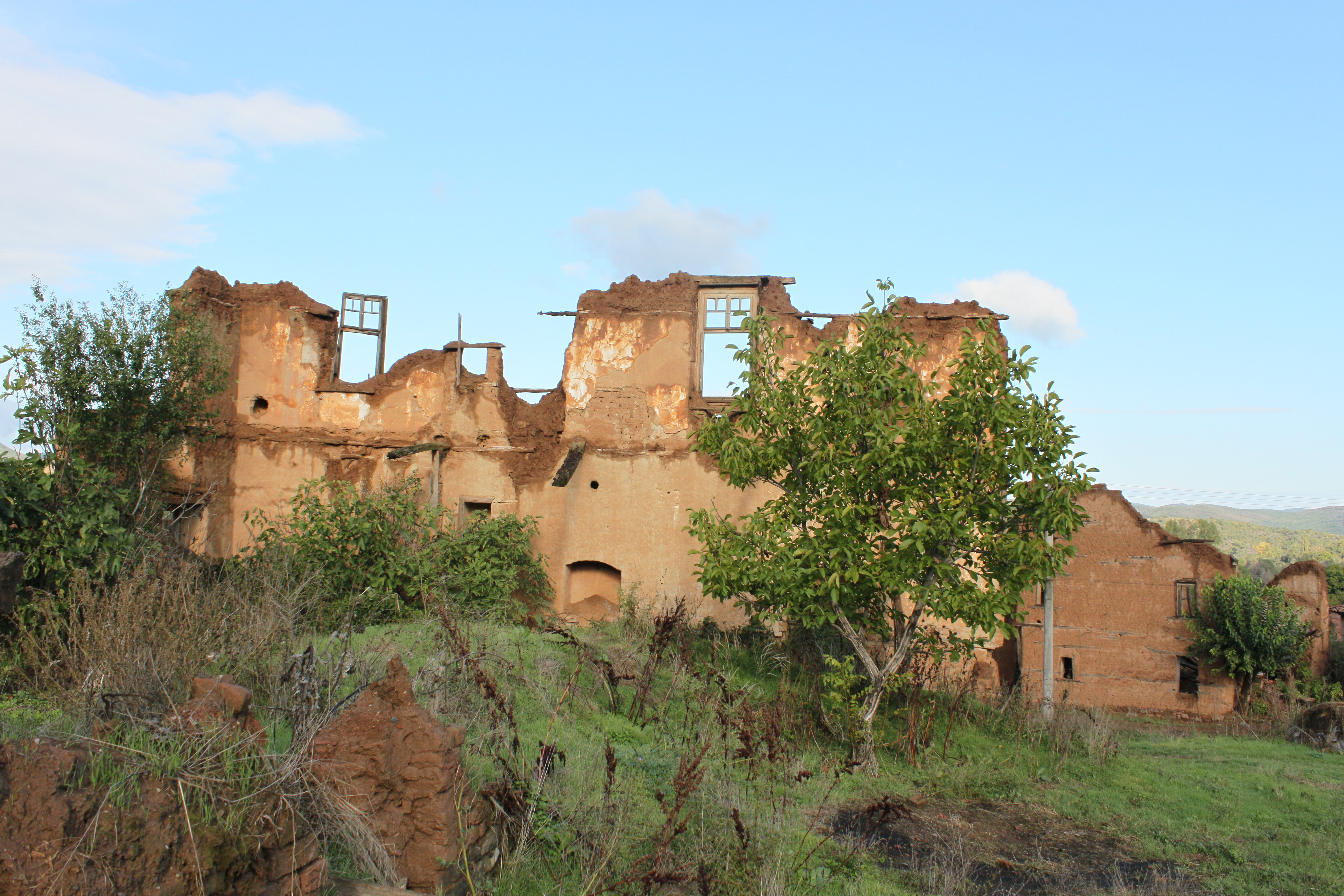 Mandritsa, a village in the Rhodope Mountains, Bulgaria